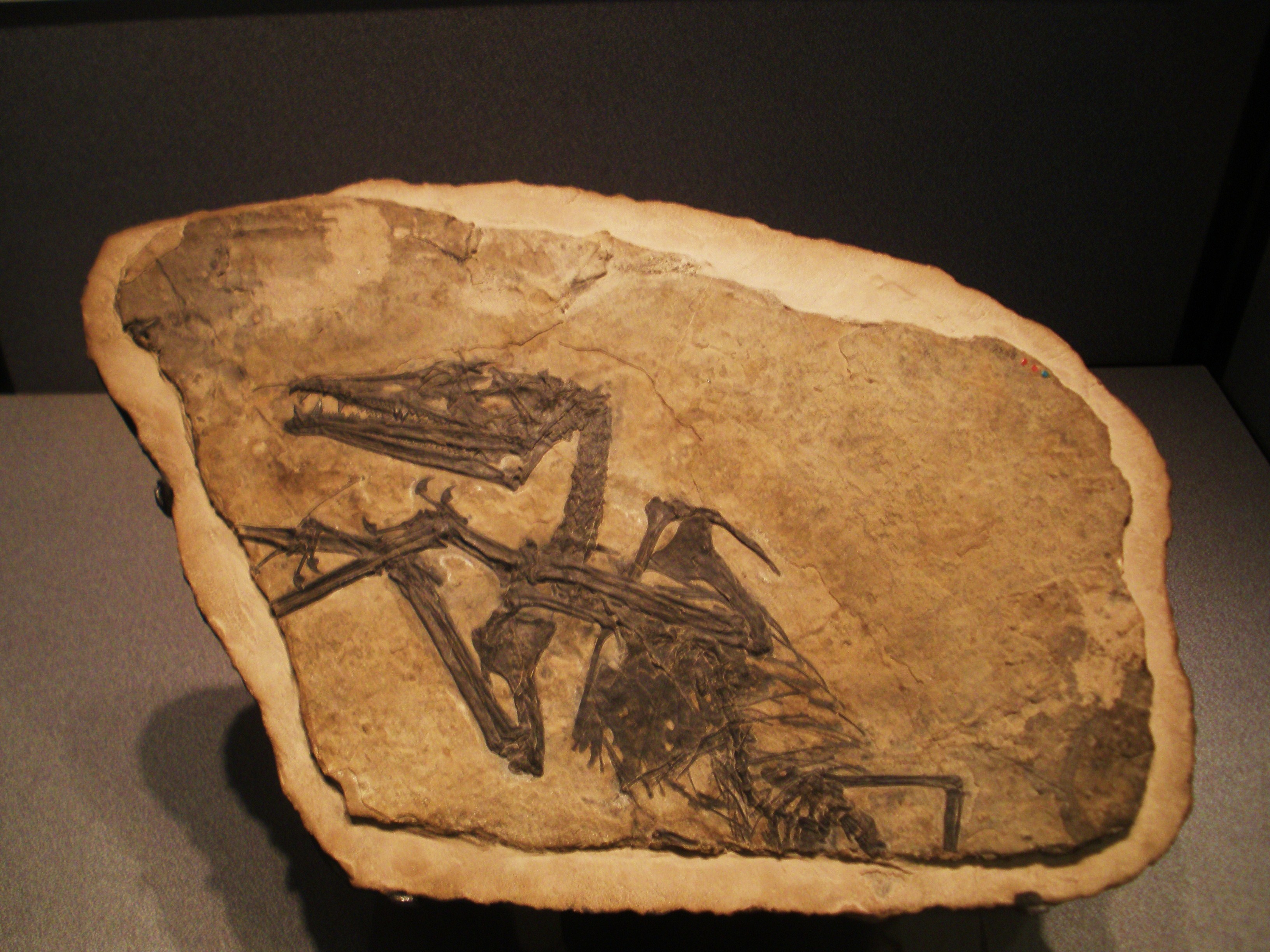 Fossil of Eudimorphodon ranzii, an extinct pterosaur